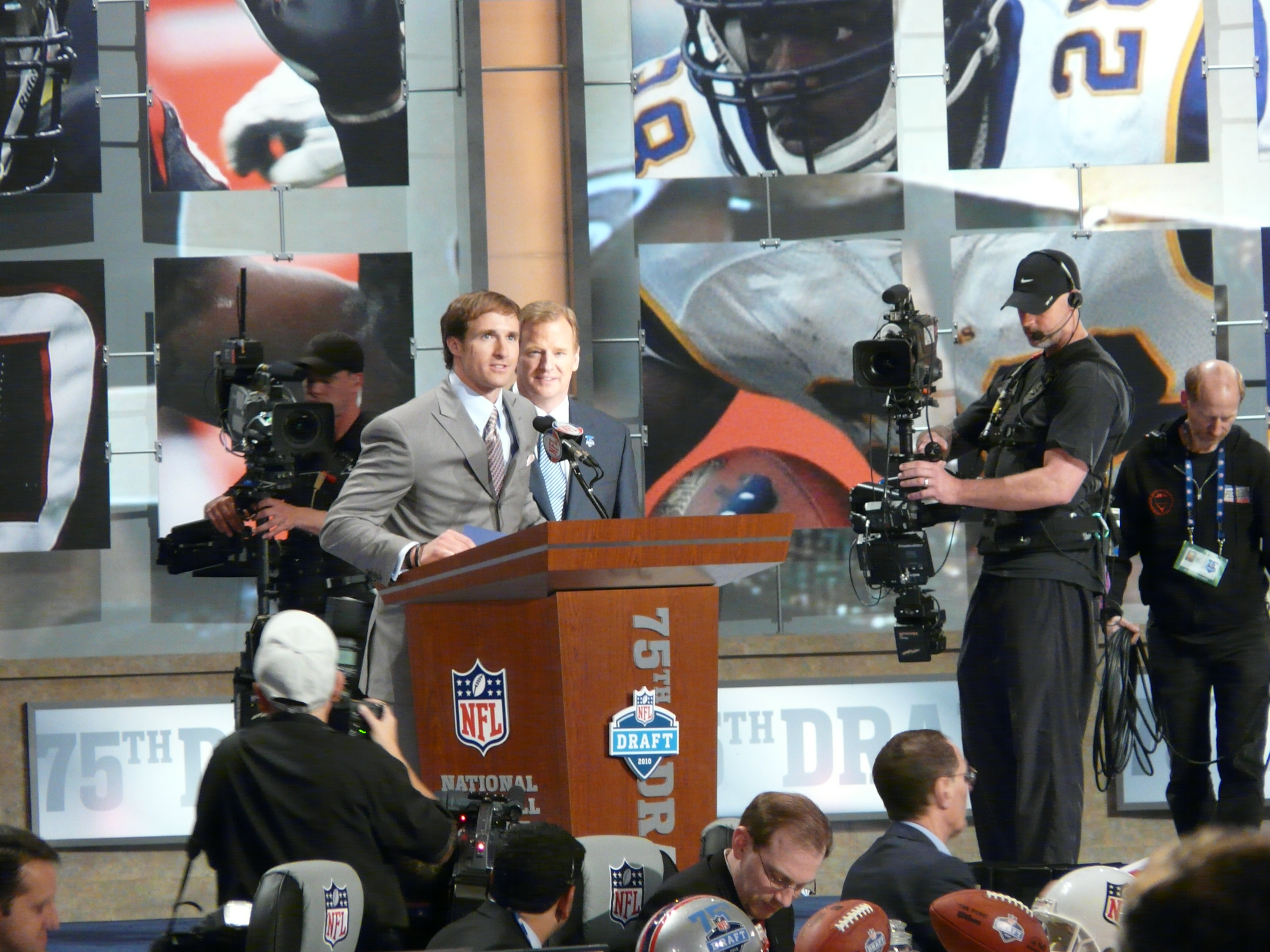 Drew Brees at the podium, Roger Goodell behind him.